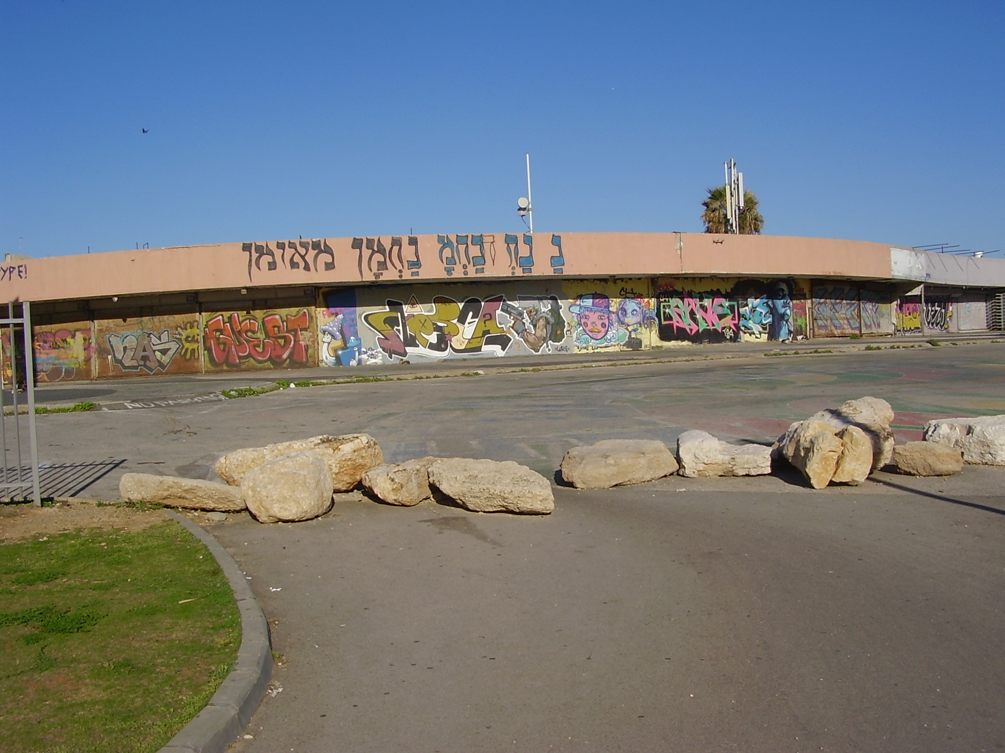 graffiti on tel aviv dolphinarium building